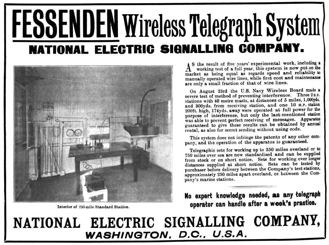 Advertisement for commercial point-to-point radiotelegraph (then known as "wireless") equipment.